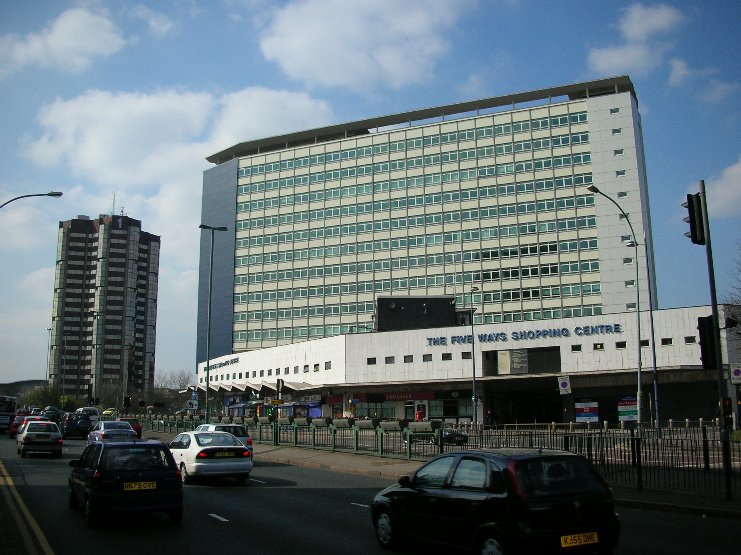 Five Ways Shopping Centre in Birmingham, England. Auchinleck House is the building in the top of the picture, and Metropolitan House to the left. Photographed by me 7 April 2007. Oosoom